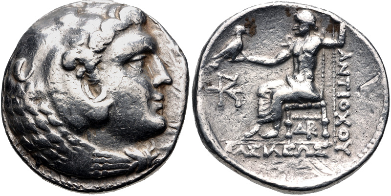 SELEUKID EMPIRE. Antiochos III ‘the Great’. 222-187 BC before Molon. AR Tetradrachm (25.9mm, 16.92 g, 1h). Alexandrine types struck in the name of Antiochos. Susa mint. Struck 223-222 BC (First reign, before Molon). Head of Herakles right, wearing lion skin / Zeus Aëtophoros seated left; monogram in left field and below throne. SC 1205; ESM 379; HGC 9, 445. VF, lightly toned, light marks and scratches, struck from a worn obverse die. Rare.